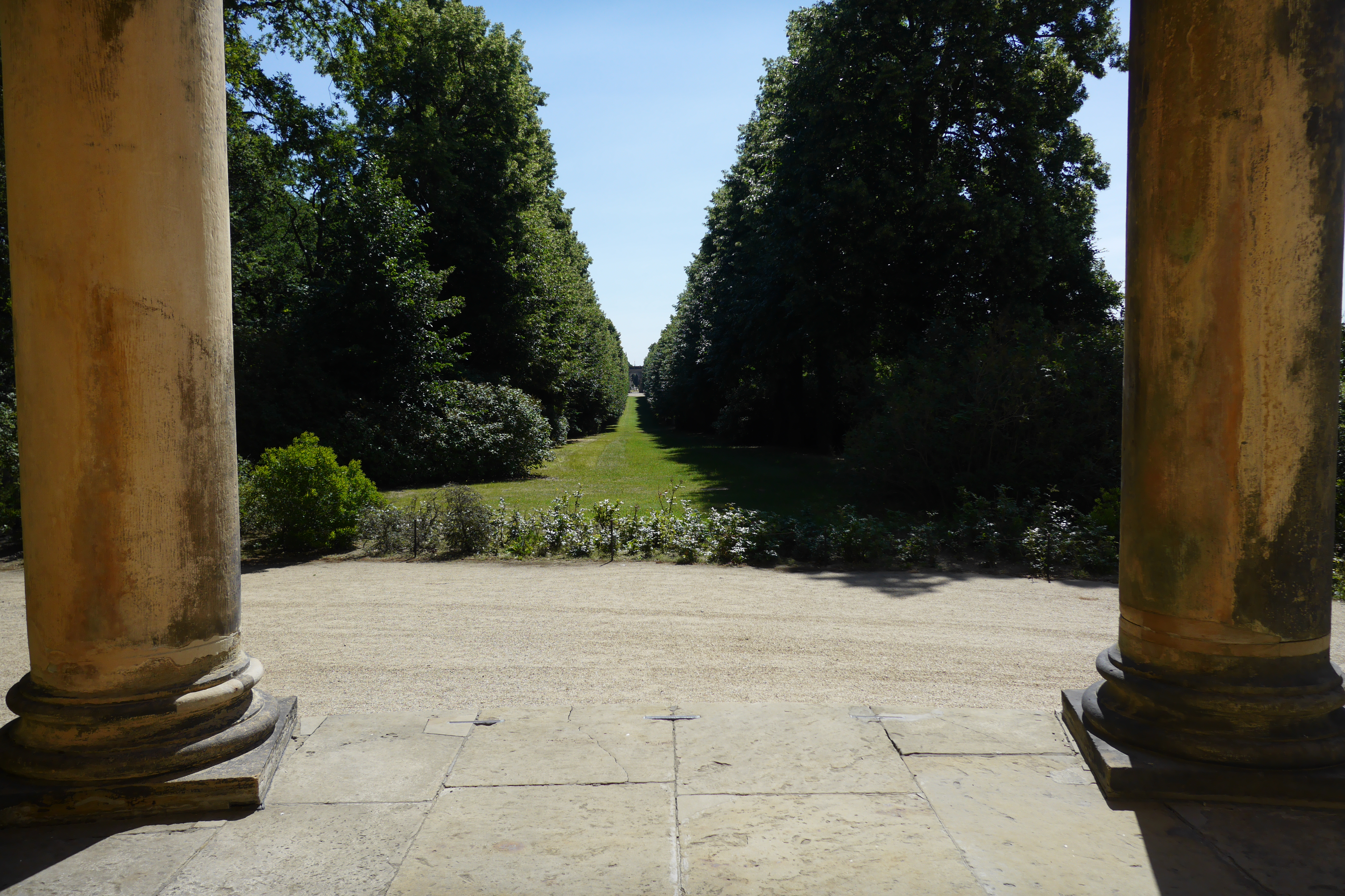 View from Belvedere auf dem Klausberg to Orangery Palace Potsdam